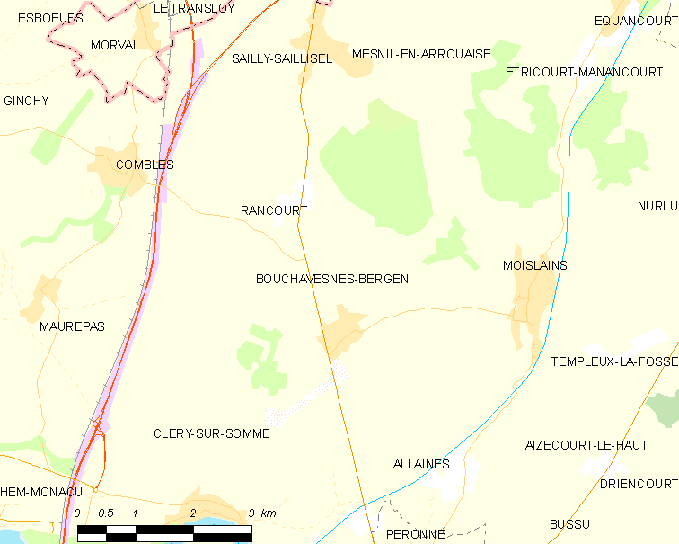 Map of French municipality Bouchavesnes-Bergen